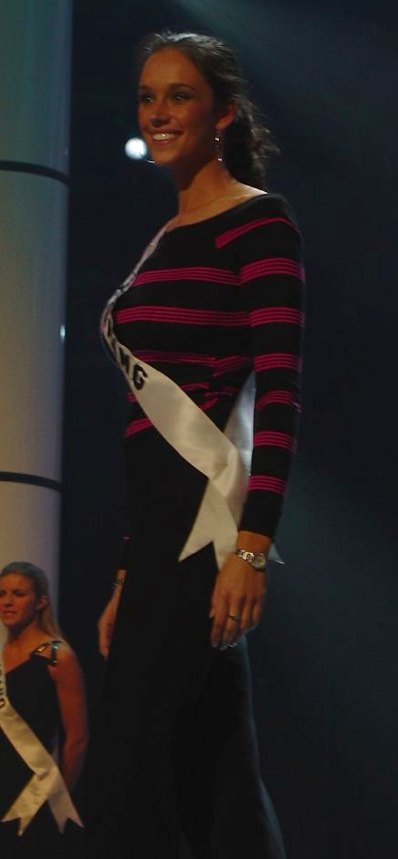 Katie Rudoff Dunn, 2004 during rehearsals for the Miss USA 2004 pageant.